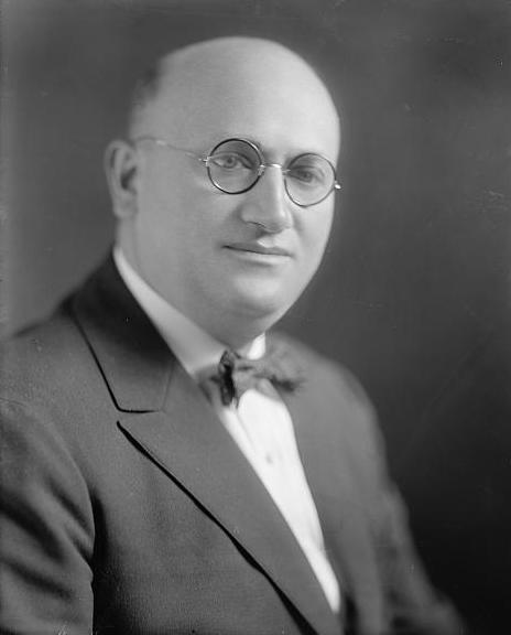 Albert B. Rossdale, Congressman from New York